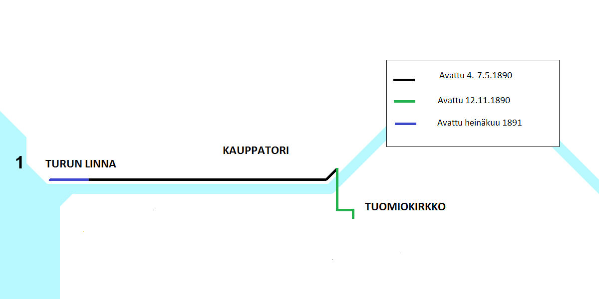 Tram network in Turku in 1892.